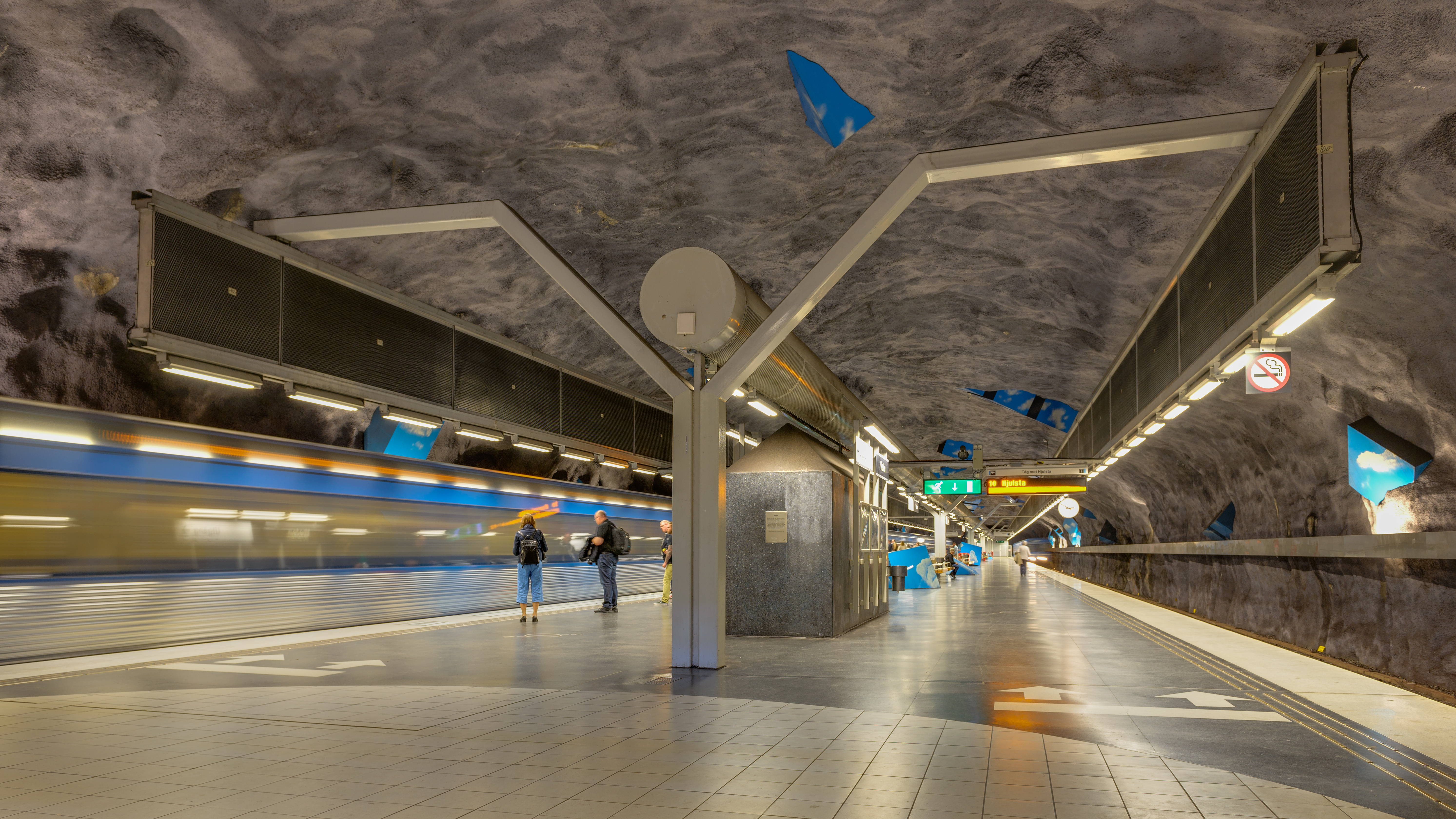 Vreten metro station, Stockholm.